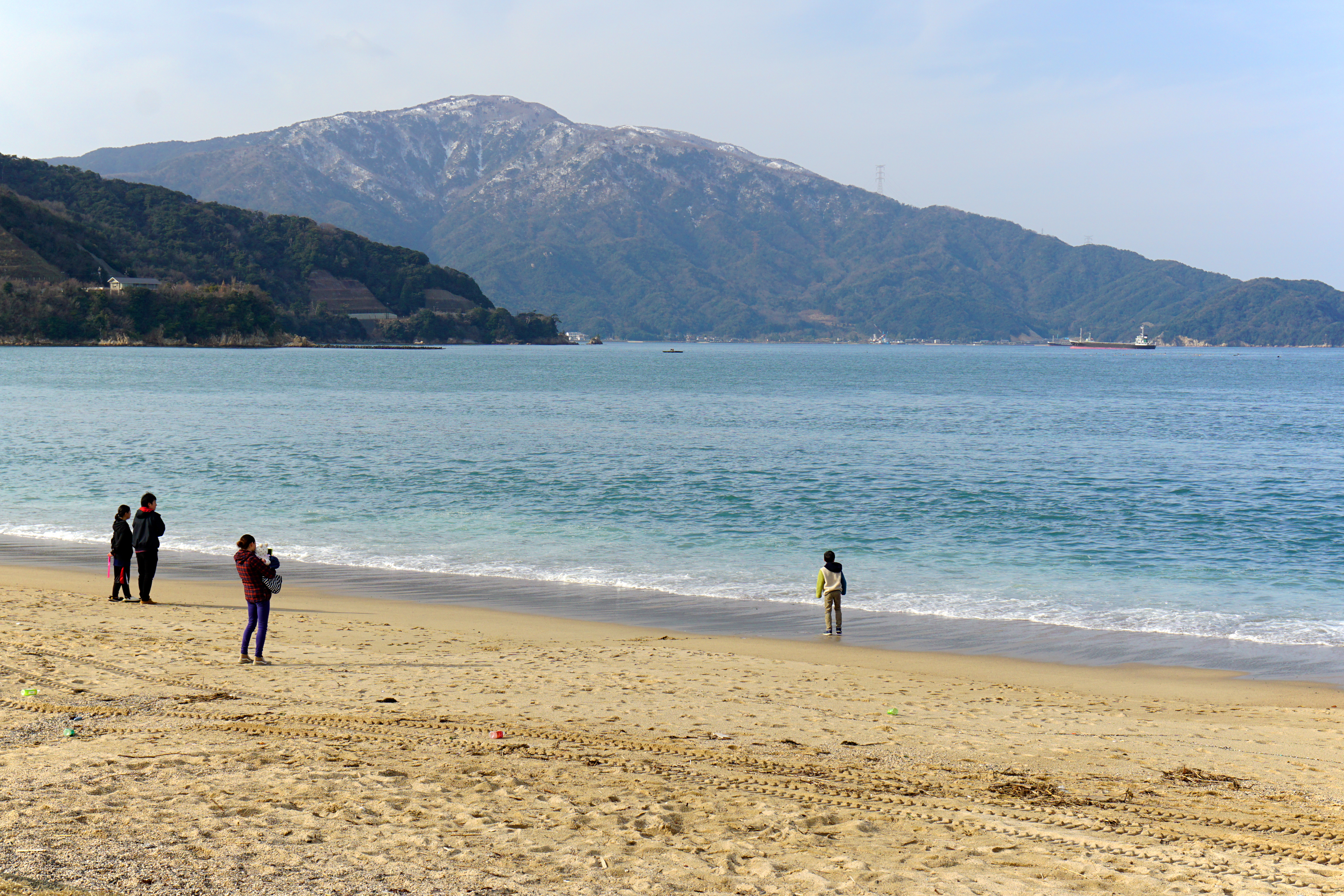 Mount Saiho and Mount Sazae view from Kehi-matsubara in Tsuruga, Fukui prefecture, Japan.